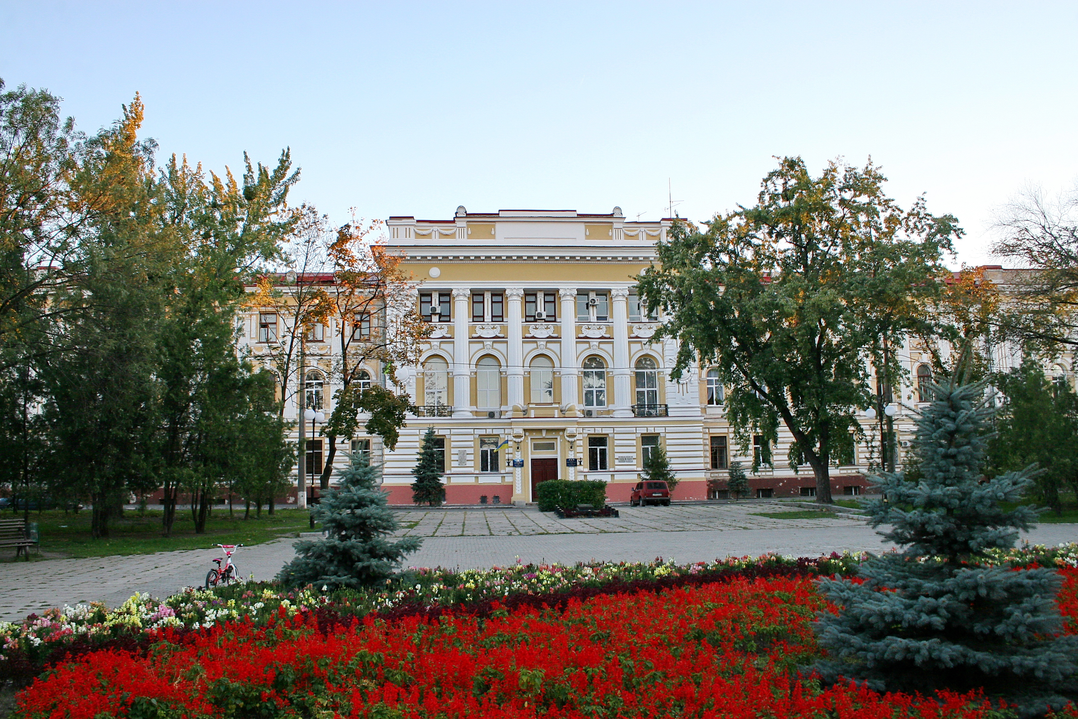 The building, where Kharkov district headquarters, the headquarters of the Southwestern Front(Civil war) and the headquarters of the 18th Army (WWII) were situated